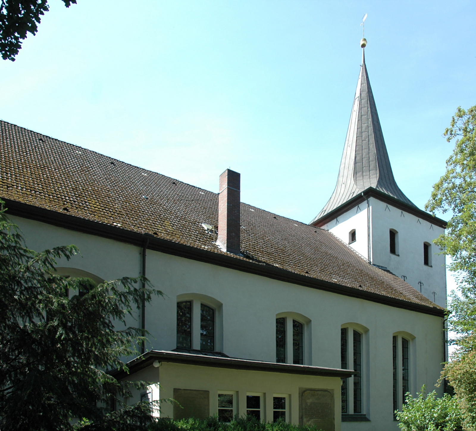 The St. Lucas-Church in Scheeßel, north-eastern aspect